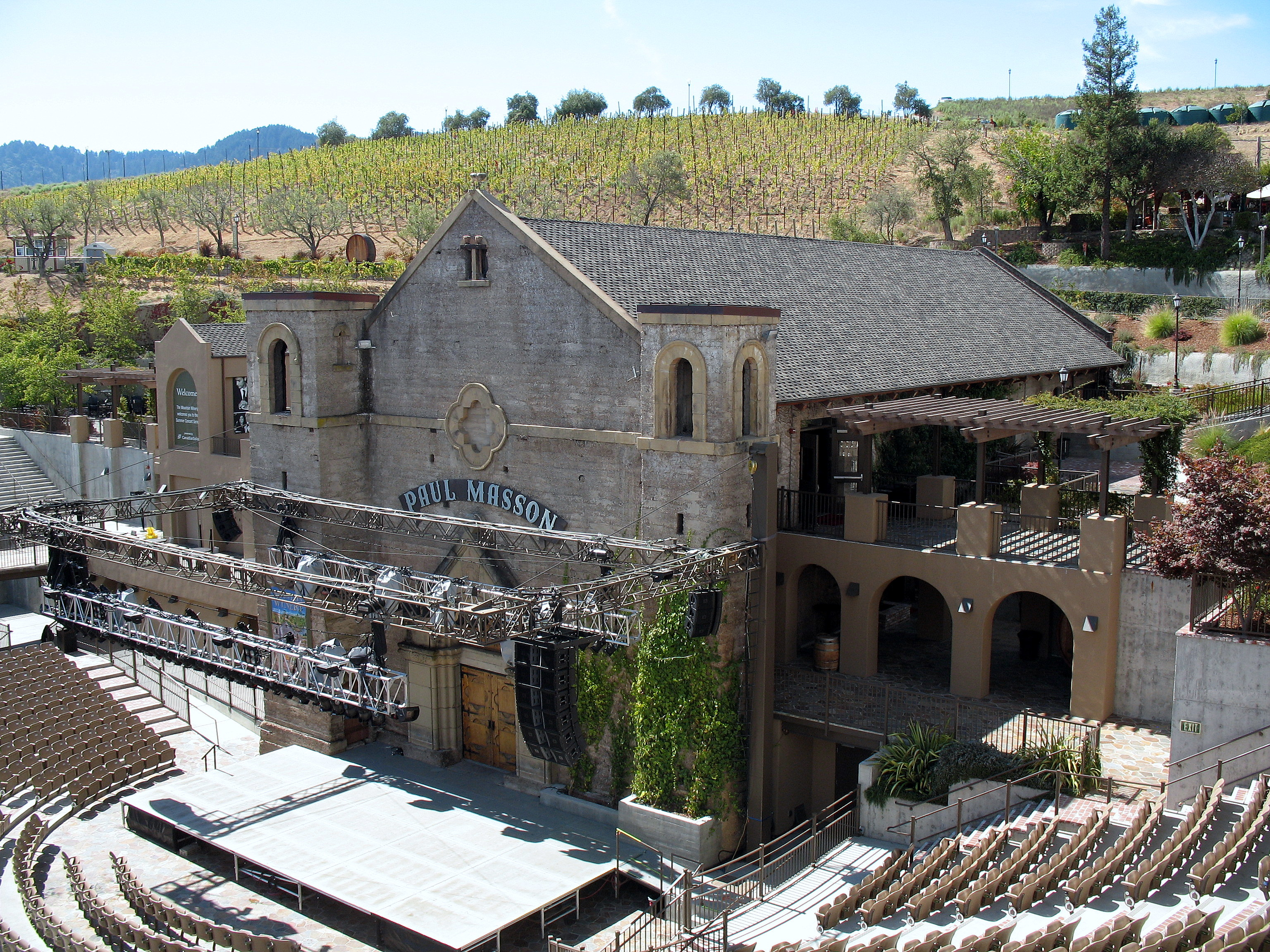 Paul Masson Mountain Winery, Pierce Rd., Saratoga, California